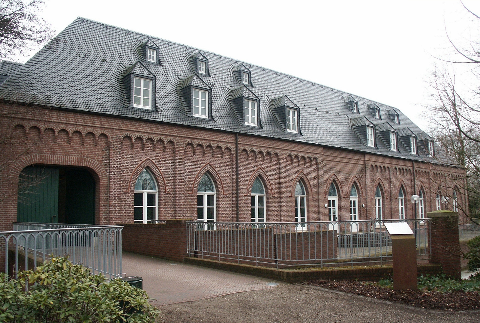 Castle Moyland (nearby Bedburg-Hau, Germany), part of the Vorburg